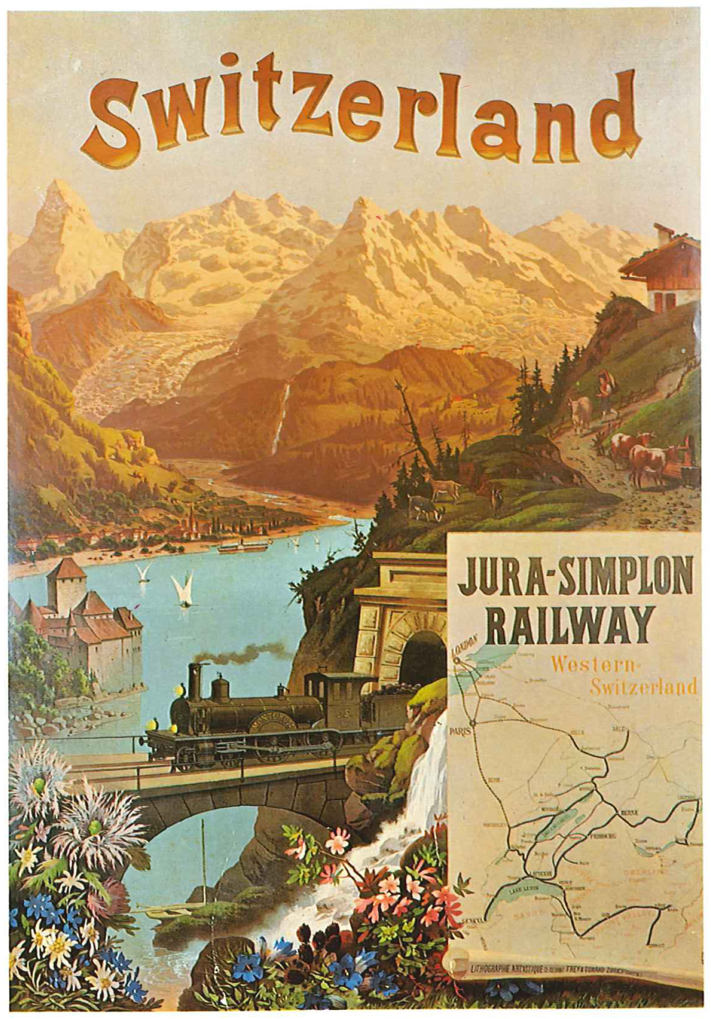 Poster advertising tourism by train along the Swiss Jura-Simplon-Bahn, 1895. Artwork by F. Conrad. Original is in the Museum für Gestaltung in Zürich.